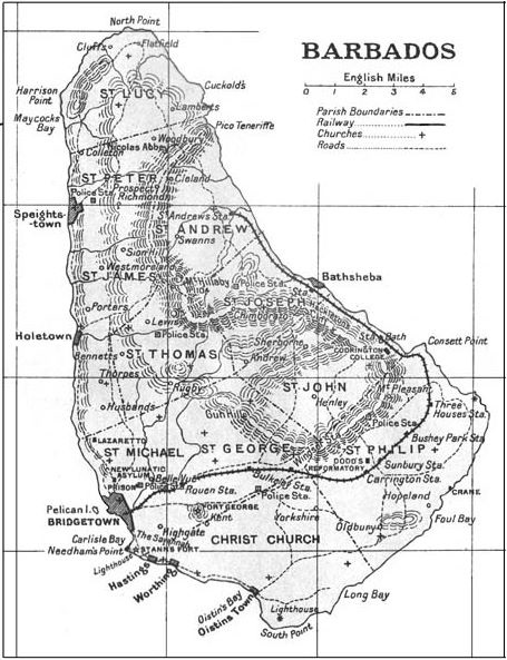 Algernon Aspinall 'The Pocket Guide to the West Indies'. 515 pages. New York, 1923.